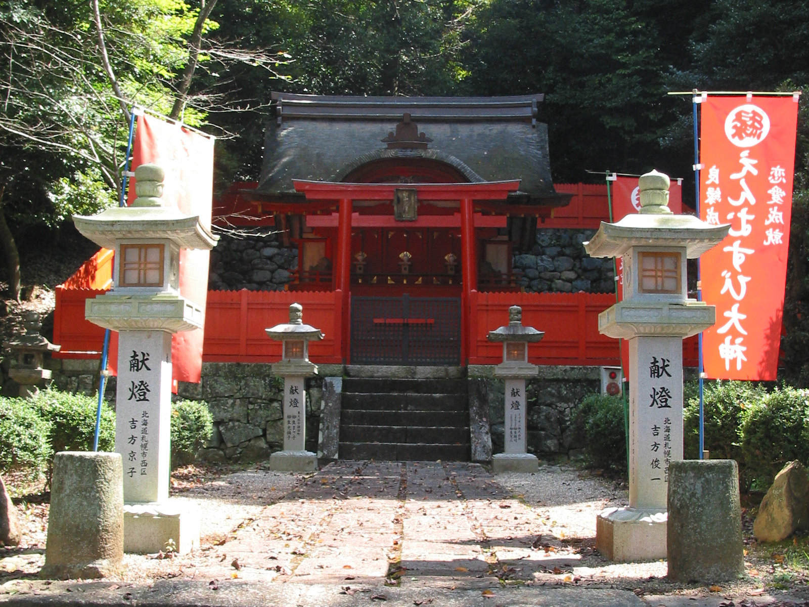 Honden of Hakusan Shrine (Important Cultural Property of Japan) at Abe-Monjuin, Abe Sakurai, Nara Pref., Japan. 華厳宗別格本山安倍文殊院にある白山神社本殿 重要文化財・室町時代後期。 流造こけら葺正面軒唐破風。 奈良県桜井市阿部で撮影